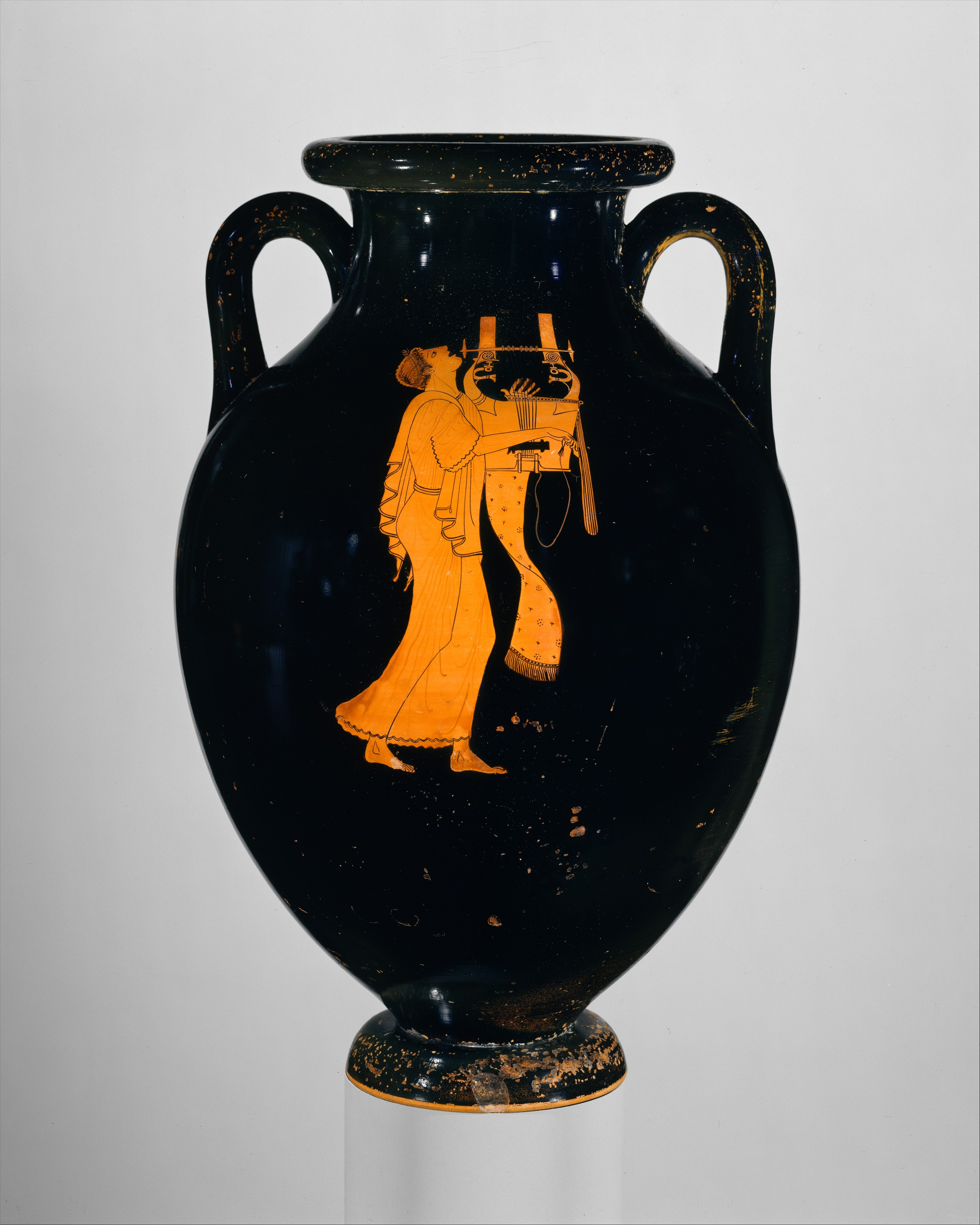 Greek, Attic; Amphora; Vases; Obverse, young man singing and playing the kithara; Reverse, judge